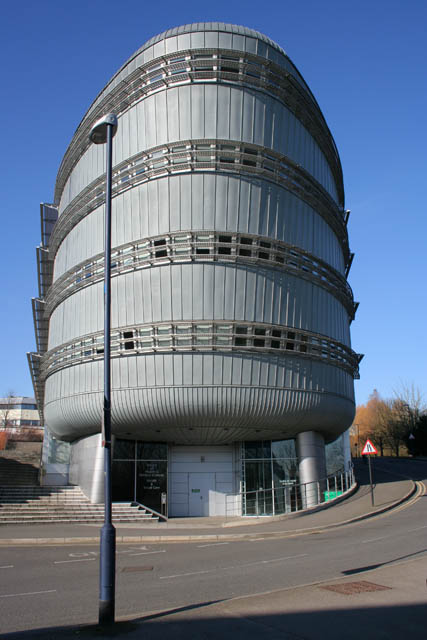 The Duke of Kent Building, C Surrey University Housing the Faculty of Health and Medical Sciences, this building was opened on 13 March 2000 by the Duke of Kent. Designed by architects Nicholas Grimshaw & Partners, the landmark 5-storey metal-clad building is a striking feature of the University campus and looks like a ship taking off from the hillside. The 7,500 square metre metal and glass structure, which cost around £12 million to construct, includes a central glazed atrium providing light into the deep plan space.